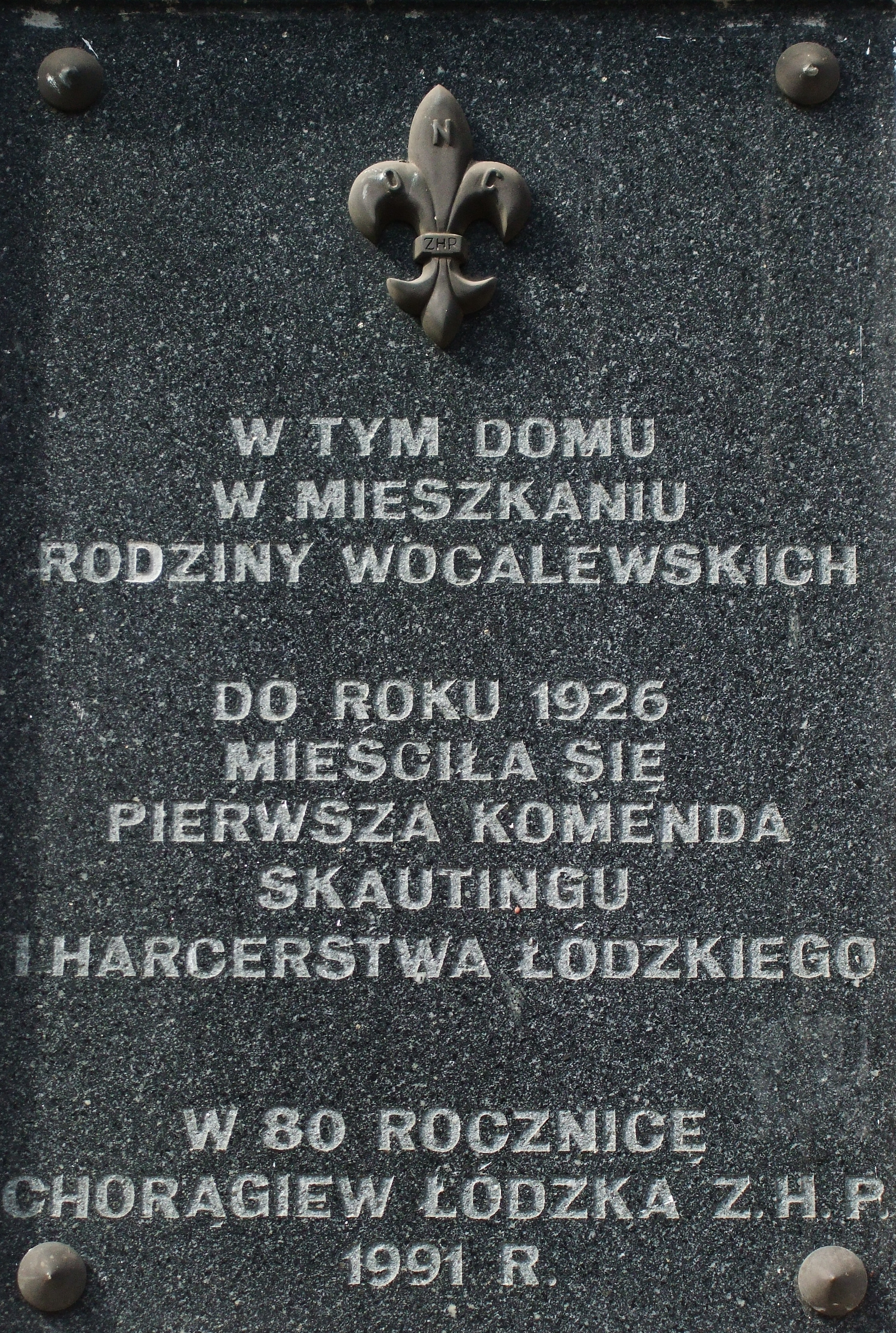 Plaque 80 anniversary of first scouts' command in Łódź, Legionów Street 51